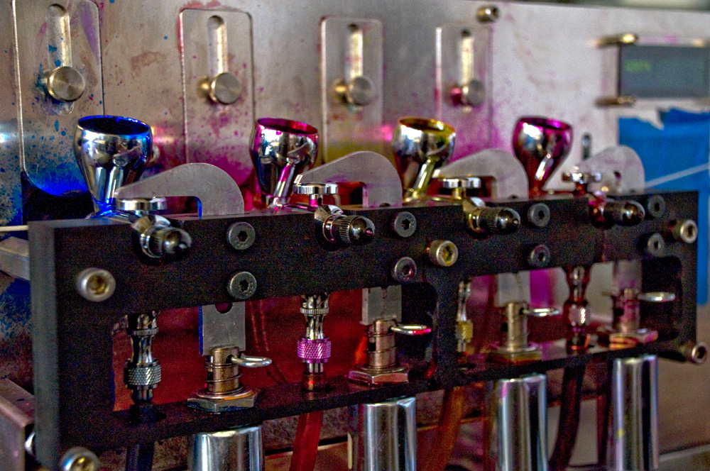 Installator by Ball-Nogues Studio